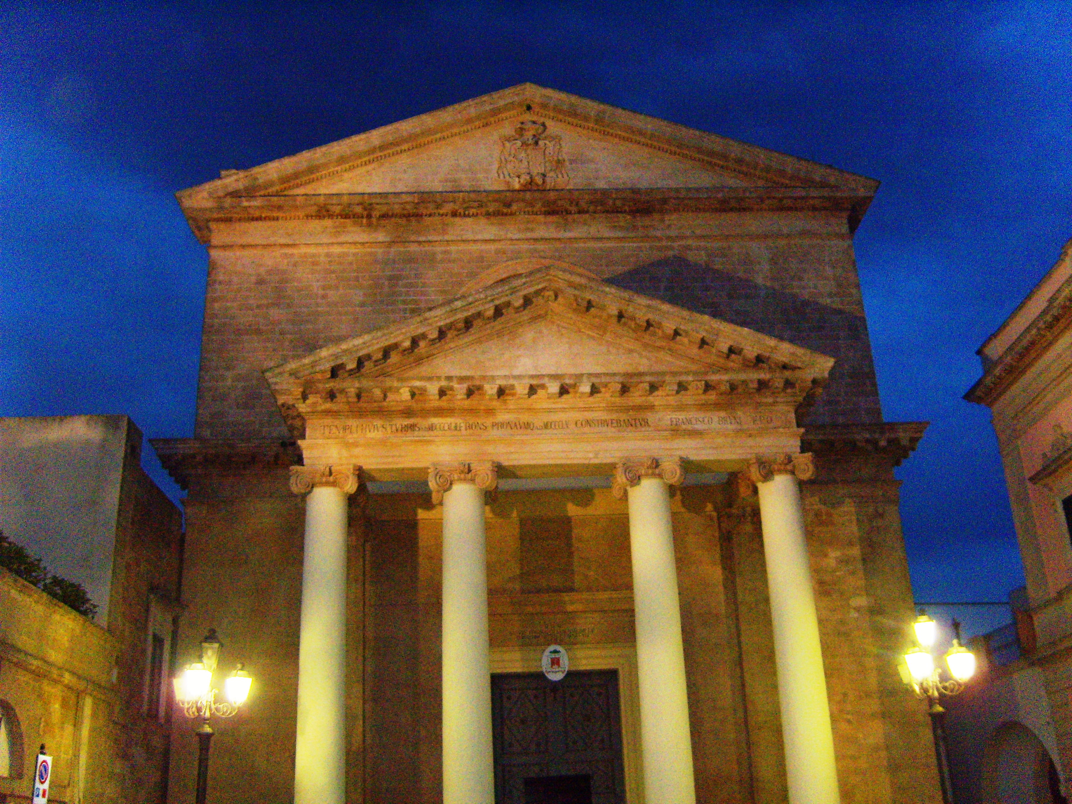 Ugento Cathedral, Province of Lecce - Apulia (Italy)